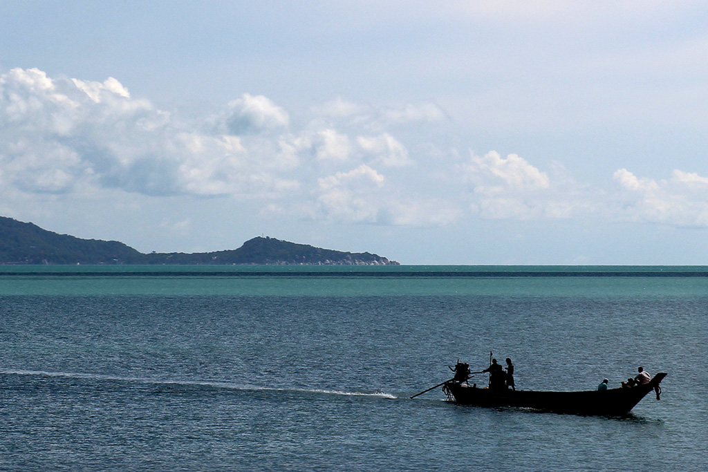 Long tail boat between Koh Samui and Koh Phangan, in background with Haad Rin, Sunset Beach side. Boats like this were used by the original Full Moon Party guests, to commute between the islands.